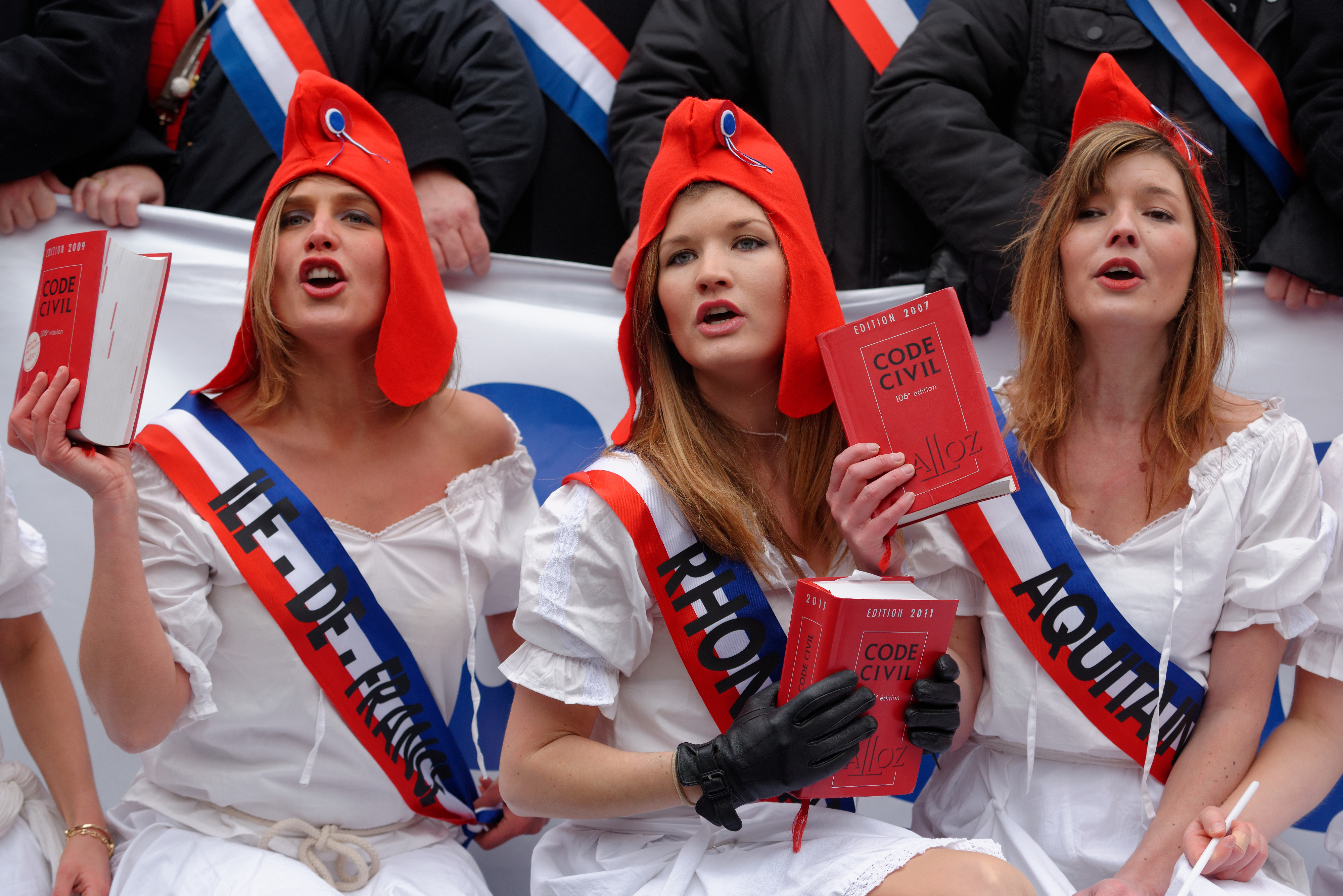 Demonstration against same-sex marriage in Paris on 13 January 2013 (“Manif pour tous”): the procession coming from Place d'Italie. These women are dressed as Marianne, a symbol of the French Republic, and hold 2007, 2009, and 2011 editions of the French Civil code